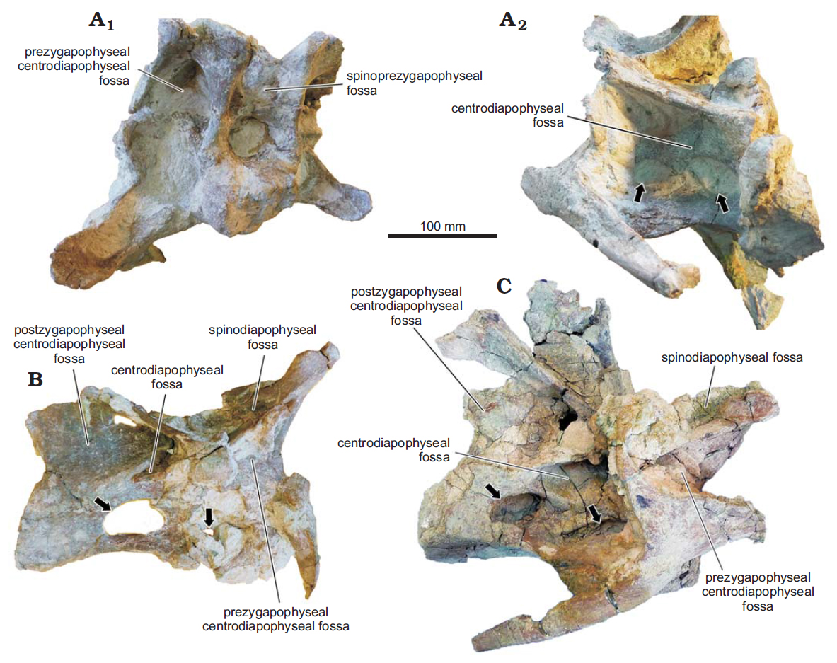 Cervical vertebrae of rebbachisaurid sauropod Katepensaurus goicoecheai Ibiricu, Casal, Martínez, Lamanna, Luna, and Salgado, 2013a from the Cenomanian–Turonian Bajo Barreal Formation of Chubut Province, Argentina. A. UNPSJB-PV 1007/1, anterior cervical vertebra in anterior (A1) and right ventrolateral (A2) views. B. UNPSJB-PV 1007/2, anterior cervical vertebra in right lateral view. C. UNPSJB-PV 1007/3, middle cervical vertebra in right lateral view. Lateral fossae of the centrum (hypothesized as pneumatic in origin) indicated by arrows.